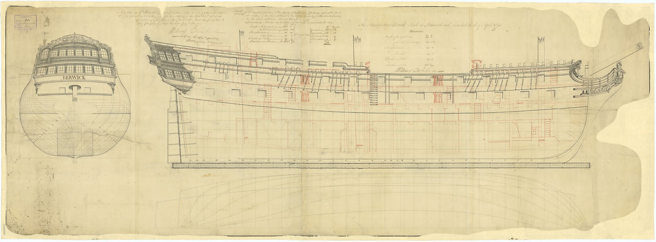 Plan showing the body plan with sternboard decoration and name on the counter, sheer lines with inboard detail and figurehead, and longitudinal half-breadth for Berwick (1775), a 74-gun Third Rate, two-decker, as built at Portsmouth Dockyard. The plan was later approved for Bombay Castle (1782), Powerful (1783), and Defiance (1783) of the same class. Signed by John Williams [Surveyor of the Navy, 1765-1784], and Edward Hunt [1778-1784].